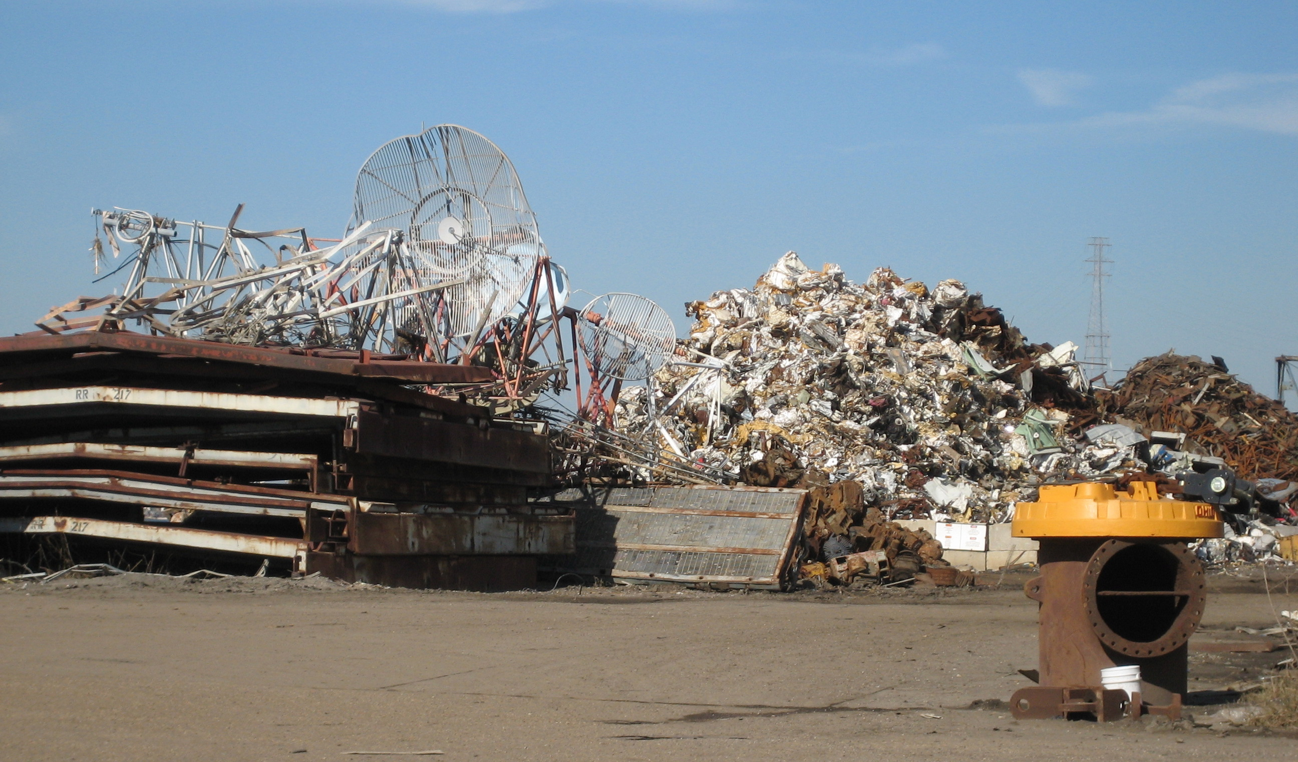 New Orleans after Hurricane Katrina: Huge piles of storm debris piled in an industrial area in back of the Lower 9th Ward. The pile at the center is mostly debris in part or whole of metal, including appliances and smashed automobiles, intended for recycling. The pile in the distance to the right is mostly wood from smashed homes. These caught fire and burned out of control about a week after I took these photos. Photo by Infrogmation.